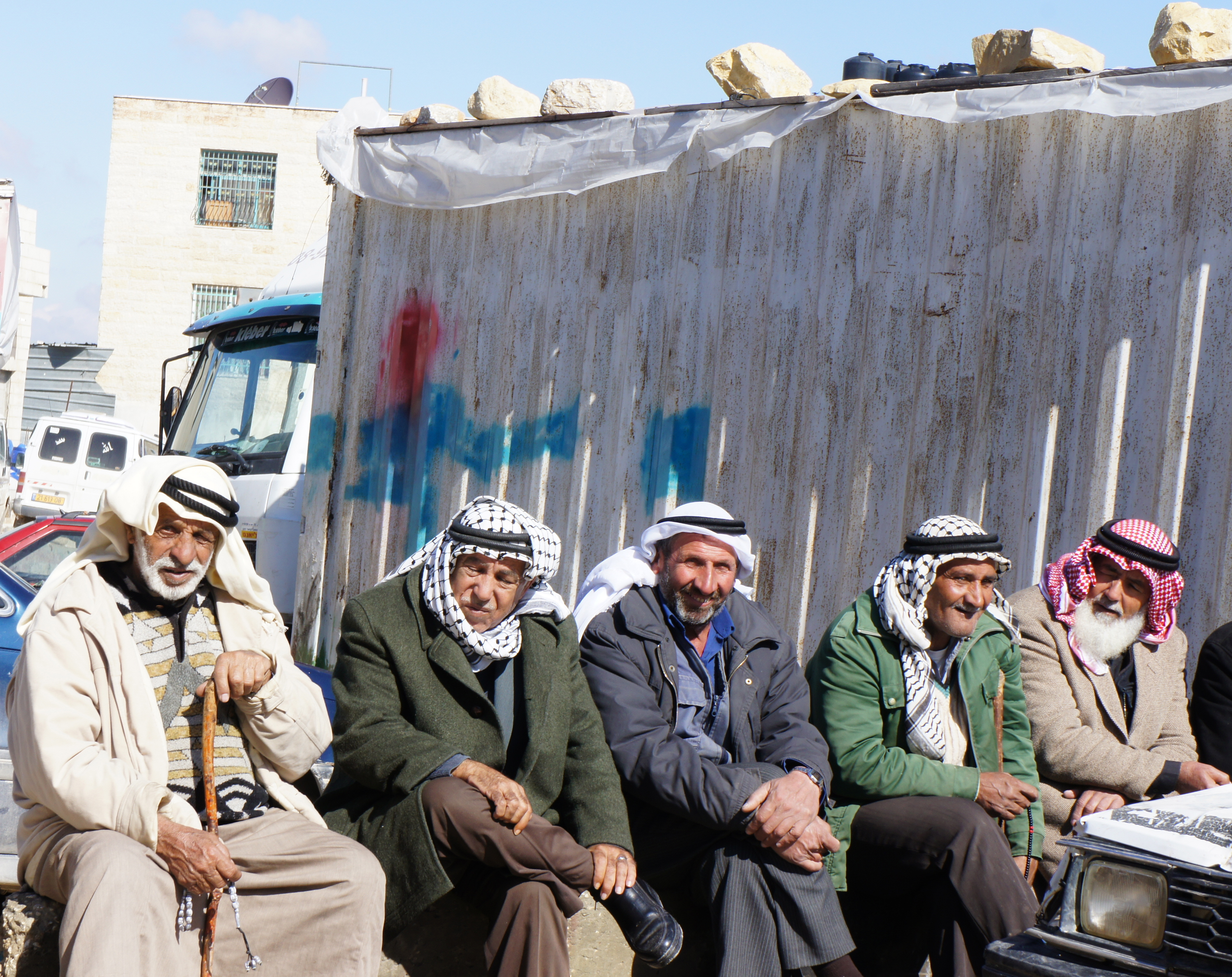 Old men at Yatta, Hebron district, Palestine